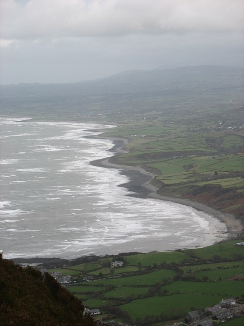 Embayments and headlands in a stormy Caernarfon Bay This view was taken from the Eifl Quarry about one hour before low tide on a day of high winds.